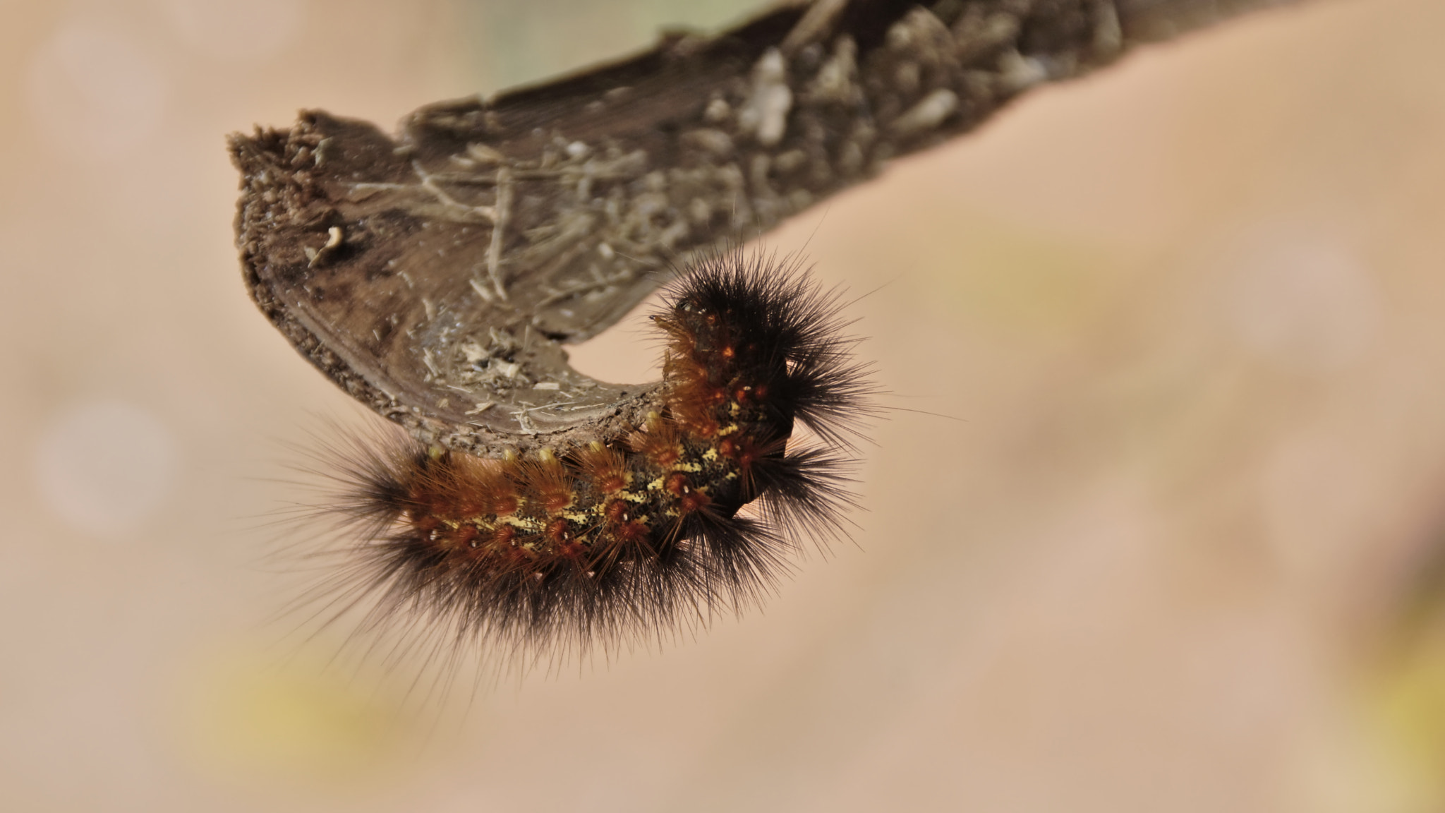 500px provided description: A little urticating bug [#Field ,#Bug ,#Insect ,#Caterpillar ,#Hary cat ,#Burnig bug]